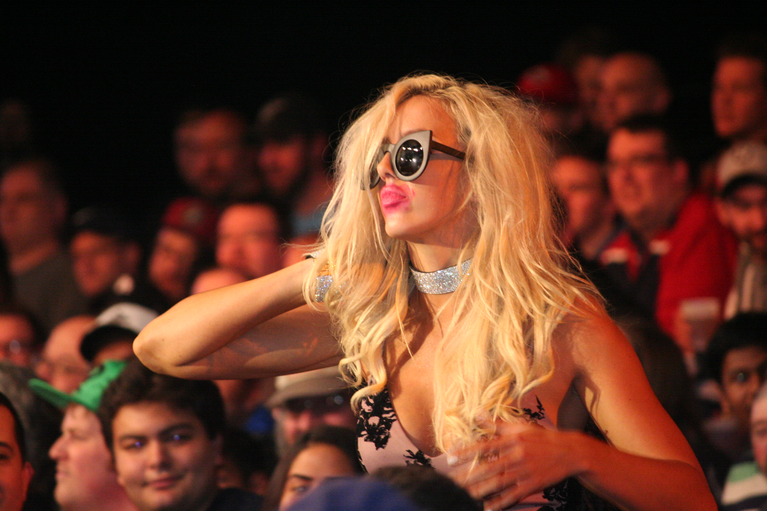 Chelsea Green making her way to the ring at Bound for Glory in November 2017.